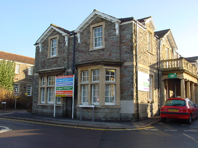 Southmead Hospital, Training Centre. Now it appears to be a training centre for Southmead Hospital, but originally this was Barton Regis Union Workhouse. This was the Master's house and the inscription reads "This Foundation Stone was laid by Her Grace The Dowager Duchess of Beaufort On the Eighteenth Day of September 1900"